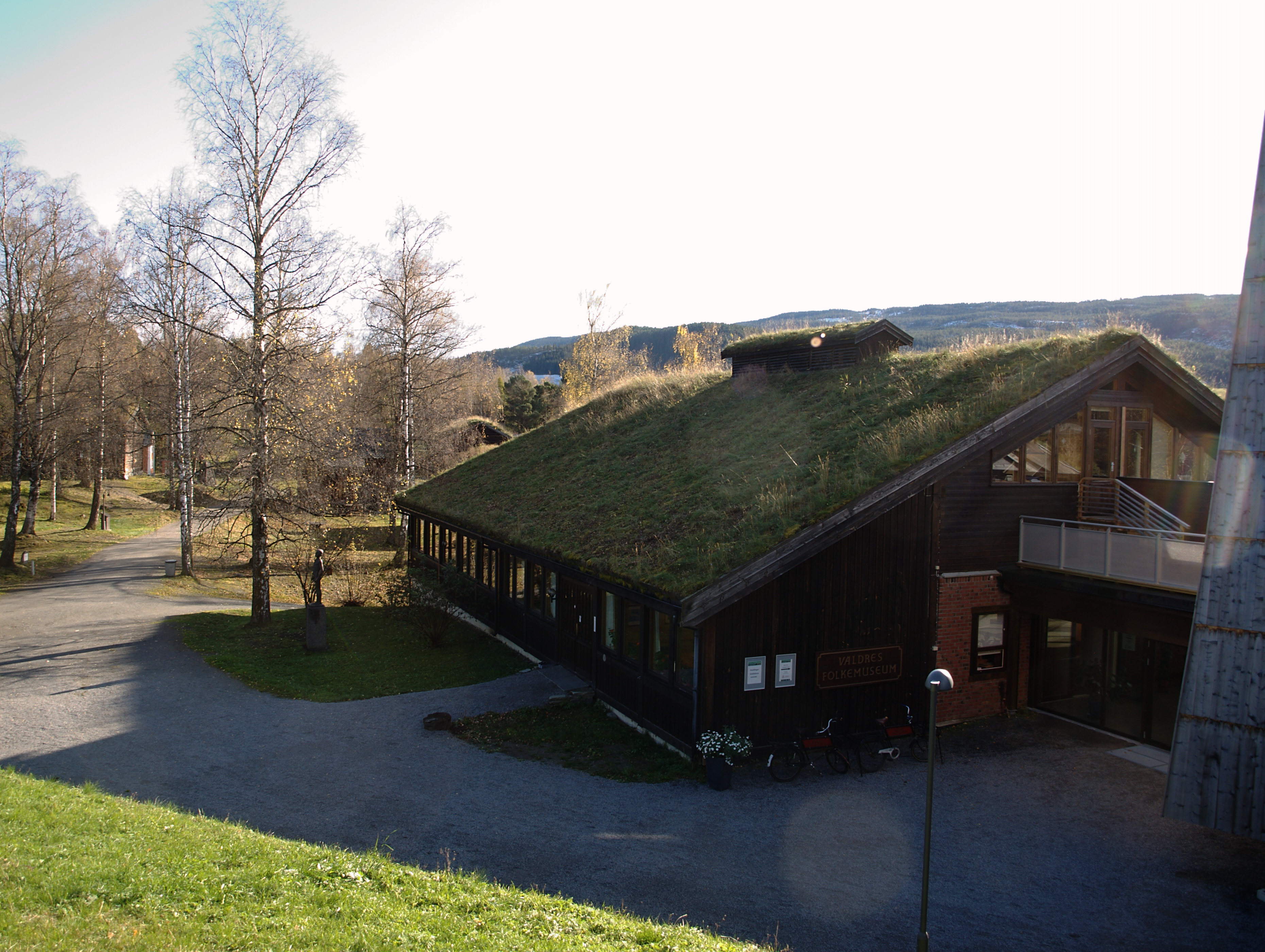 Administration building at Valdres Folkemuseum on Storøya outside Fagernes in Nord-Aurdal.